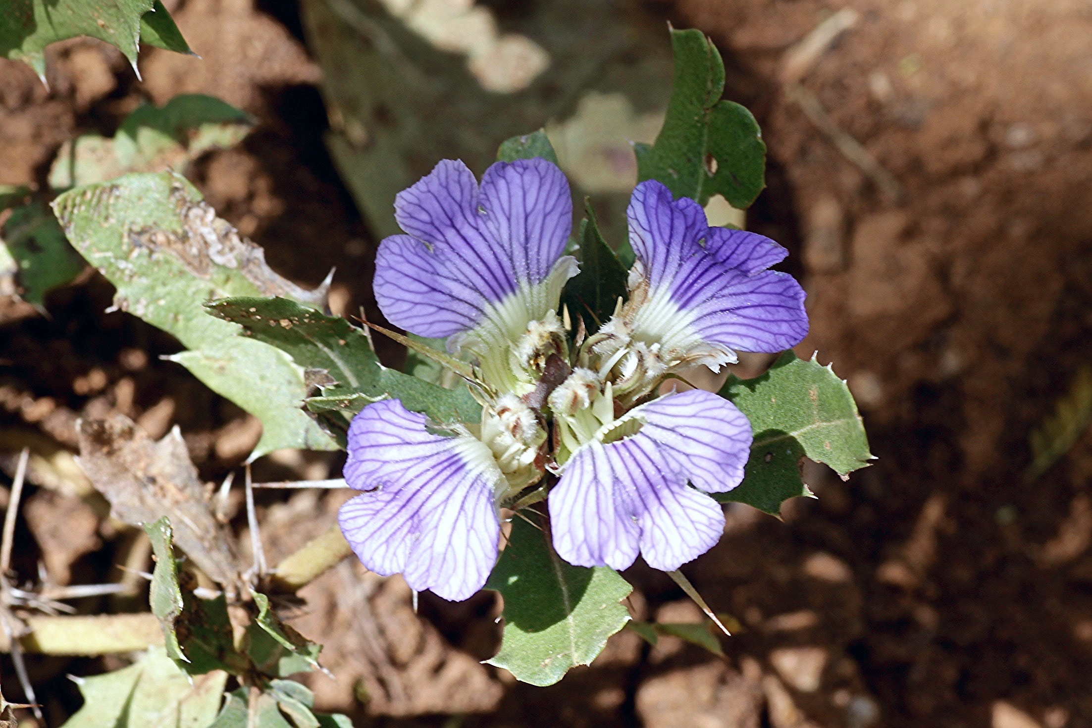 South Africa, Kwazulu Natal, Mhlopeni Nature Reserve.